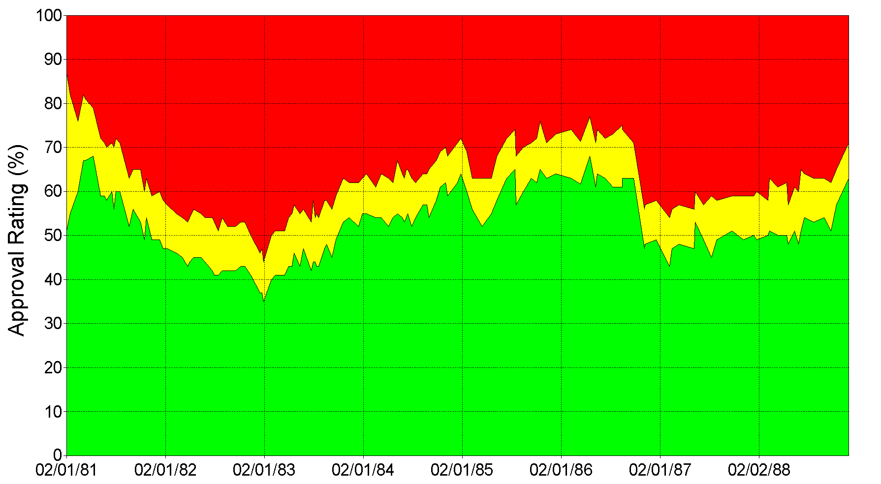 Approval Rating for Ronald Reagan. Data from Gallup Poll.